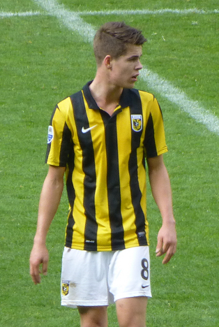 Marco van Ginkel in GelreDome during football match Vitesse vs. FC Twente